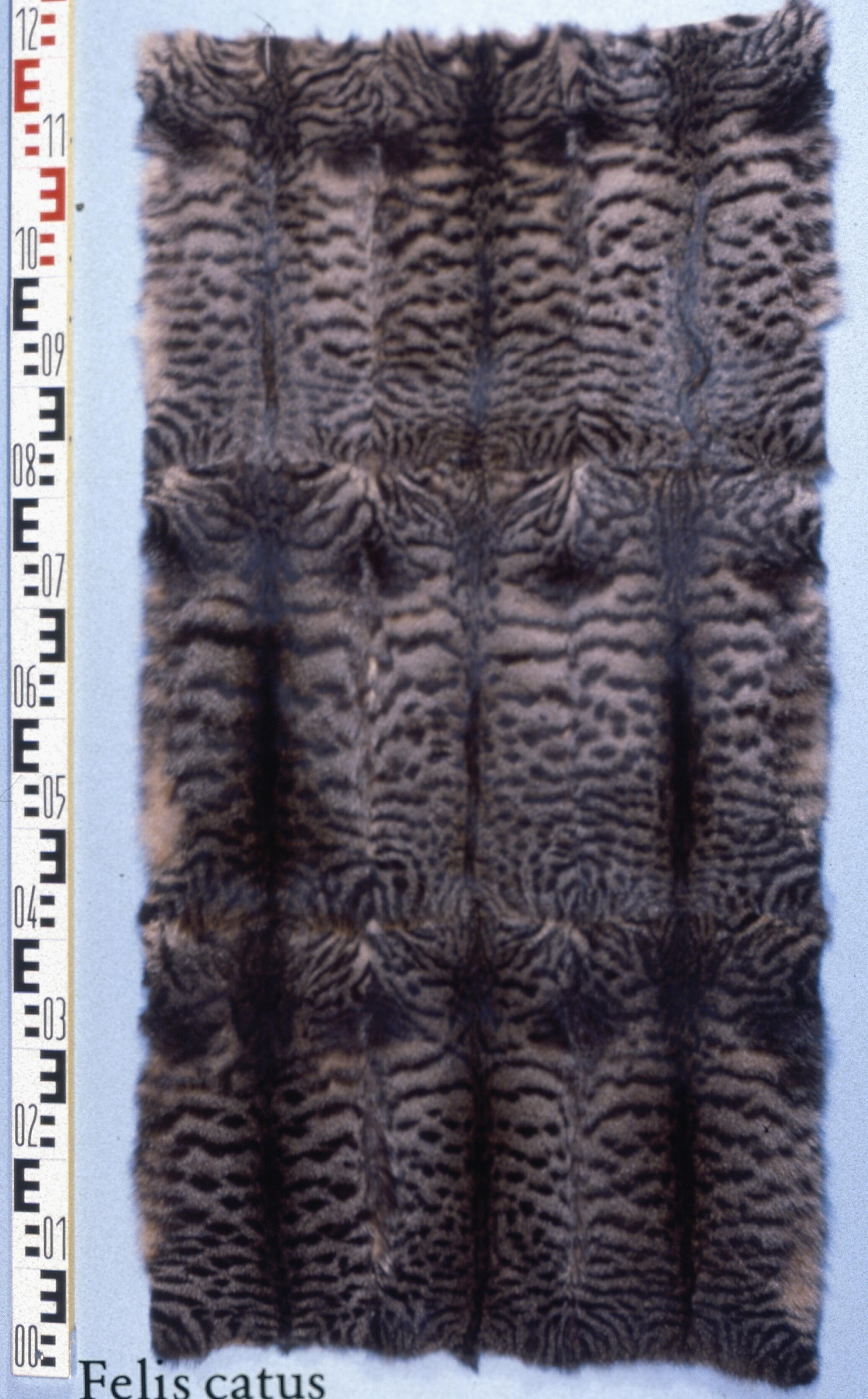 Domestic cats fur plate (Felis catus). Fur skin collection, Bundes-Pelzfachschule, Frankfurt/Main, Germany